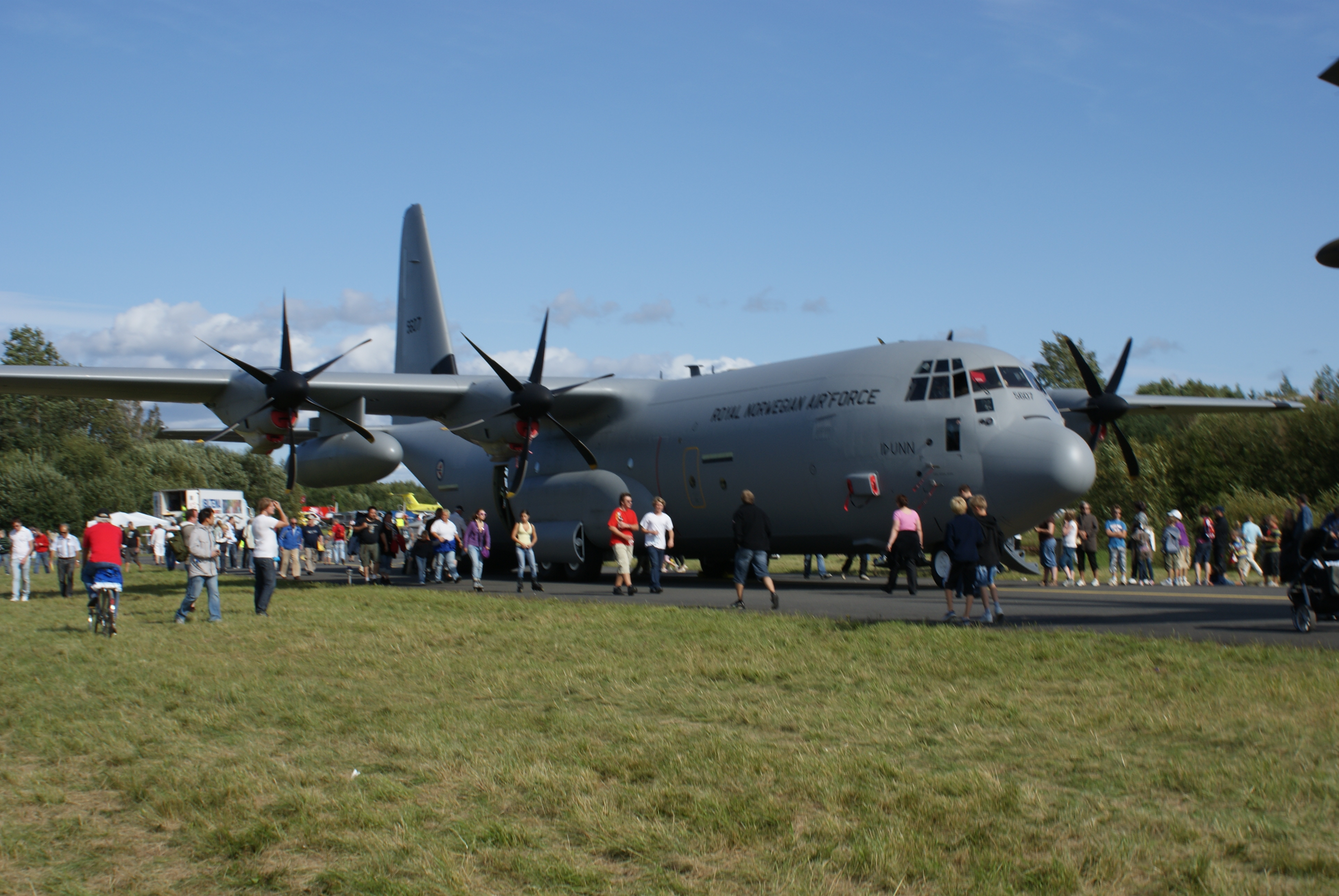 Lockheed C-130J-30 of the Royal Norwegian Air Force.